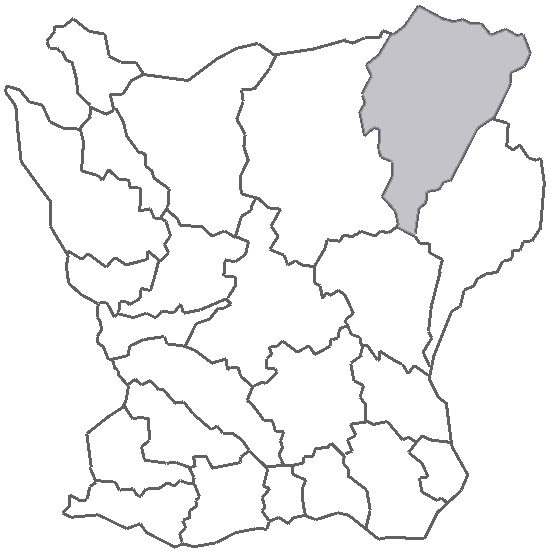 Map describing the location of Göinge Eastern Hundred in the province of Skåne, Sweden.